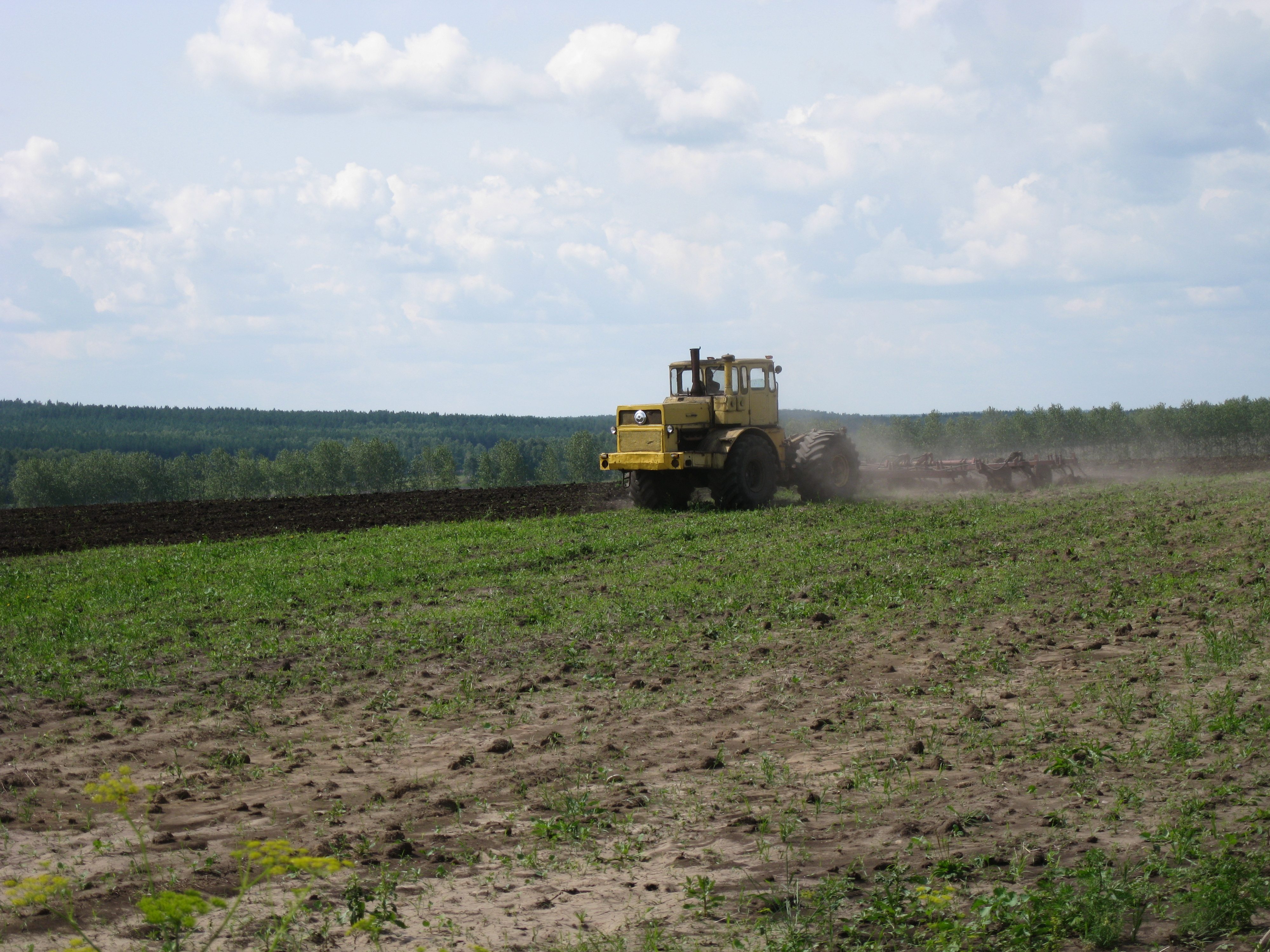 Kirovets K-701 working on a field somewhere near Suhobuzimskoe, Krasnoyarsk, Russia